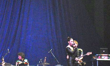 Frida Gold as Support-Act from Kylie Minogue